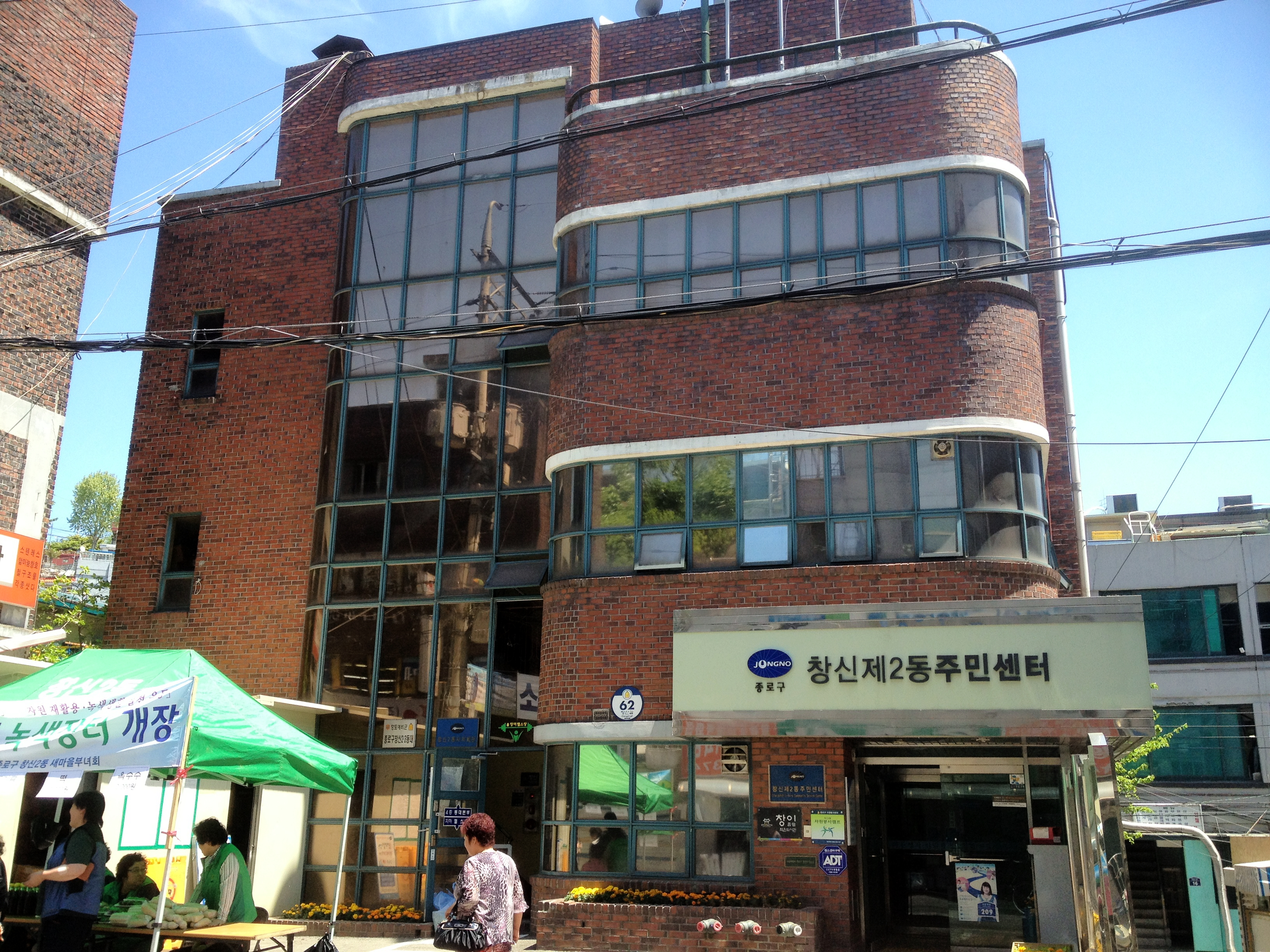 Changsin 2-dong Comunity Service Center(Jongno-gu)